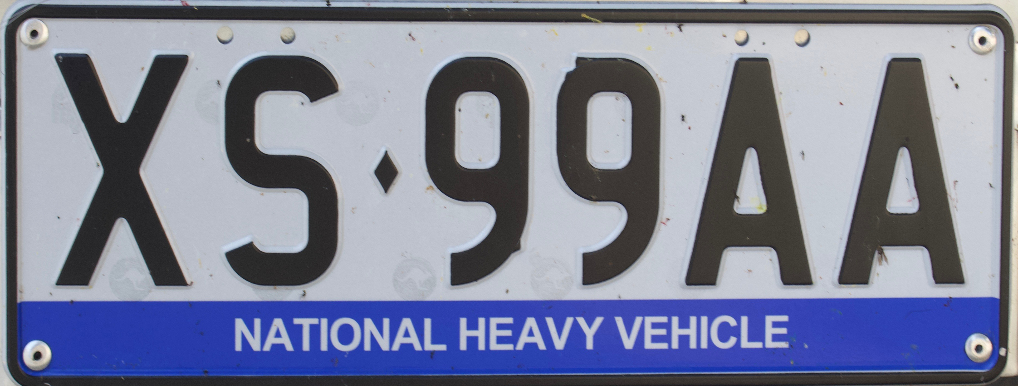 National Heavy Vehicle licence plates XS 99 AA. This was introduced recently in July 2018.